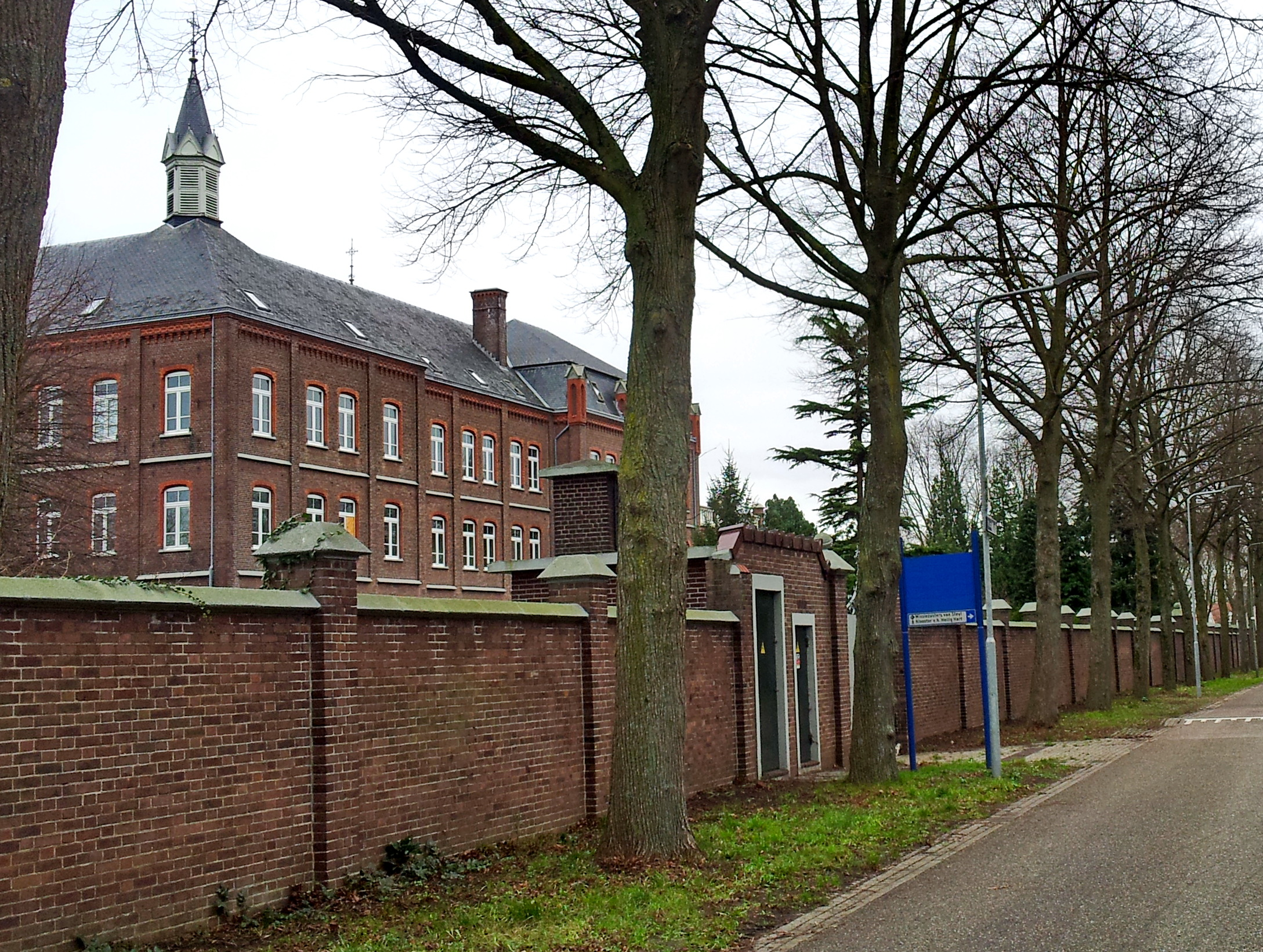 View from the south of the Monastery of the Holy Spirit in Steyl, Limburg, the Netherlands. The monastery is the motherhouse of the Congregation of the Holy Spirit Adoration Sisters (Servarum Spiritus Sancti de Adoratione Perpetua, SSpSAP).